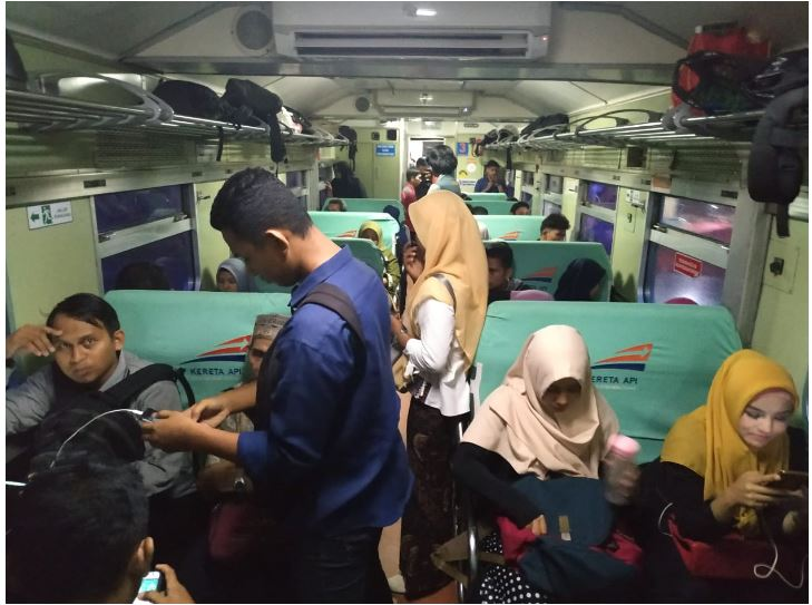 The inside of the Sibinuang train that operates from Padang Station to Naras Station, Pariaman, West Sumatra, Indonesia.